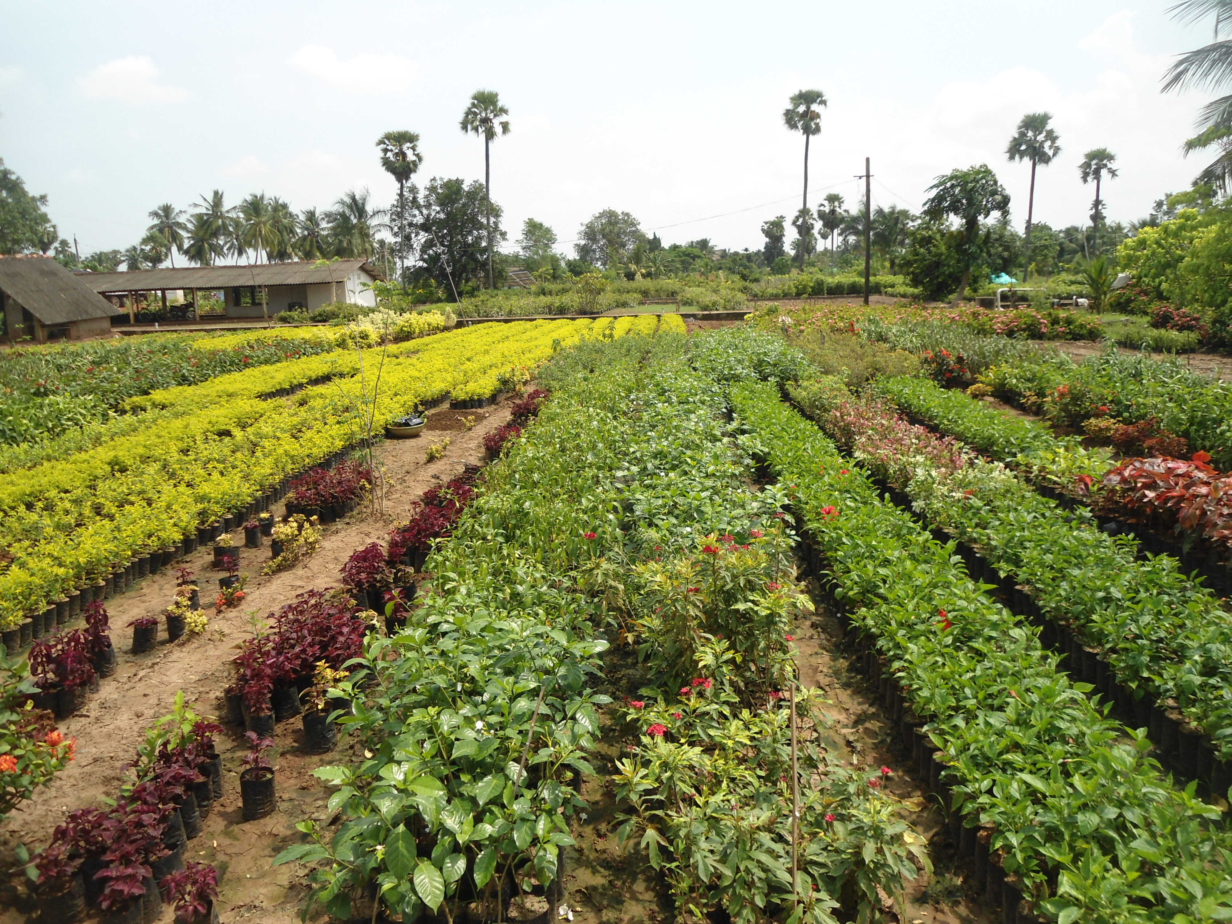 View of a nursery at Kadiyam, East Godavari district, Andhra Pradesh